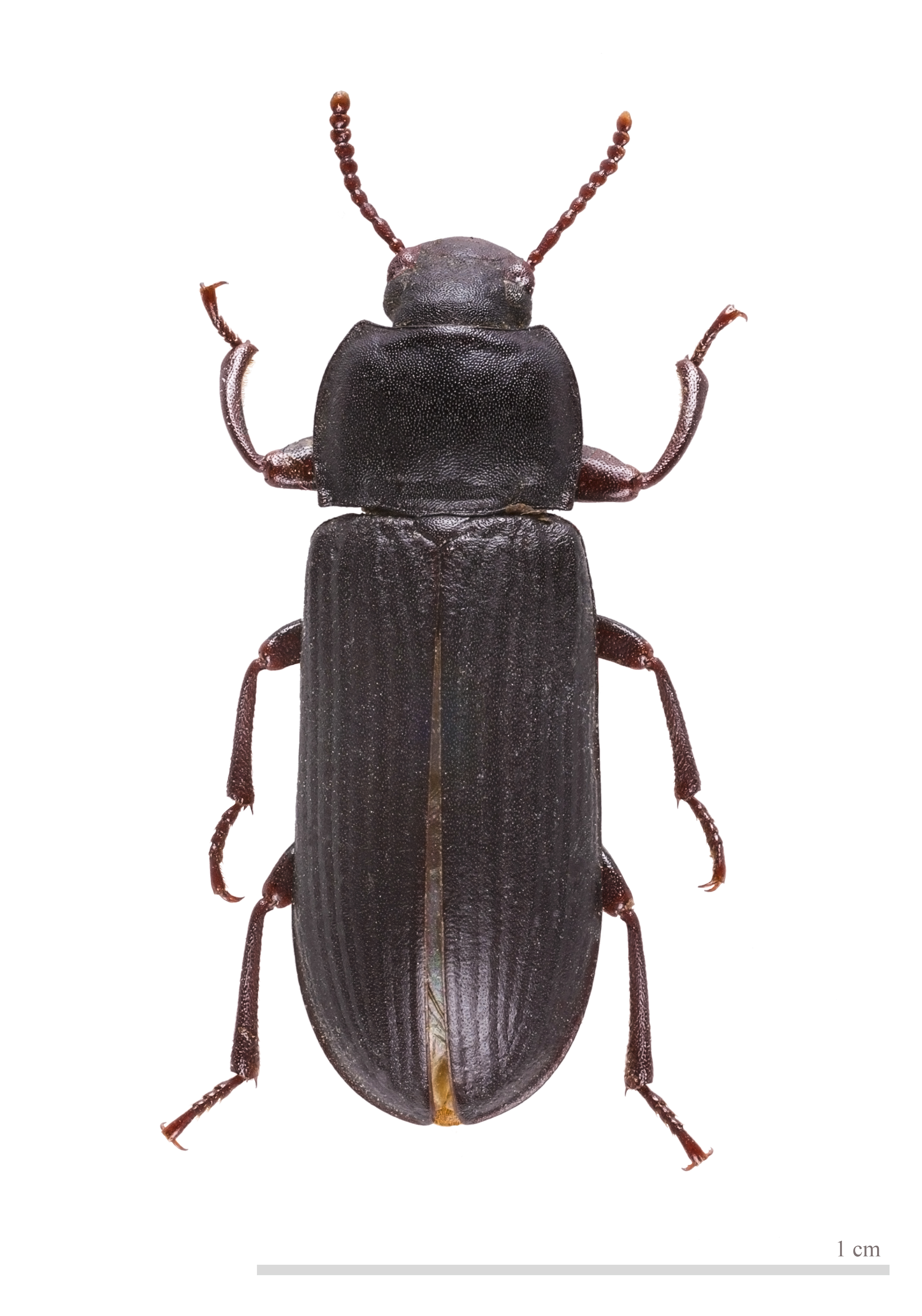 Darkling Beetle - Mounted specimen. Dorsal side Locality: Sainte-Croix-Volvestre, Ariège, Midi-Pyrénées, France